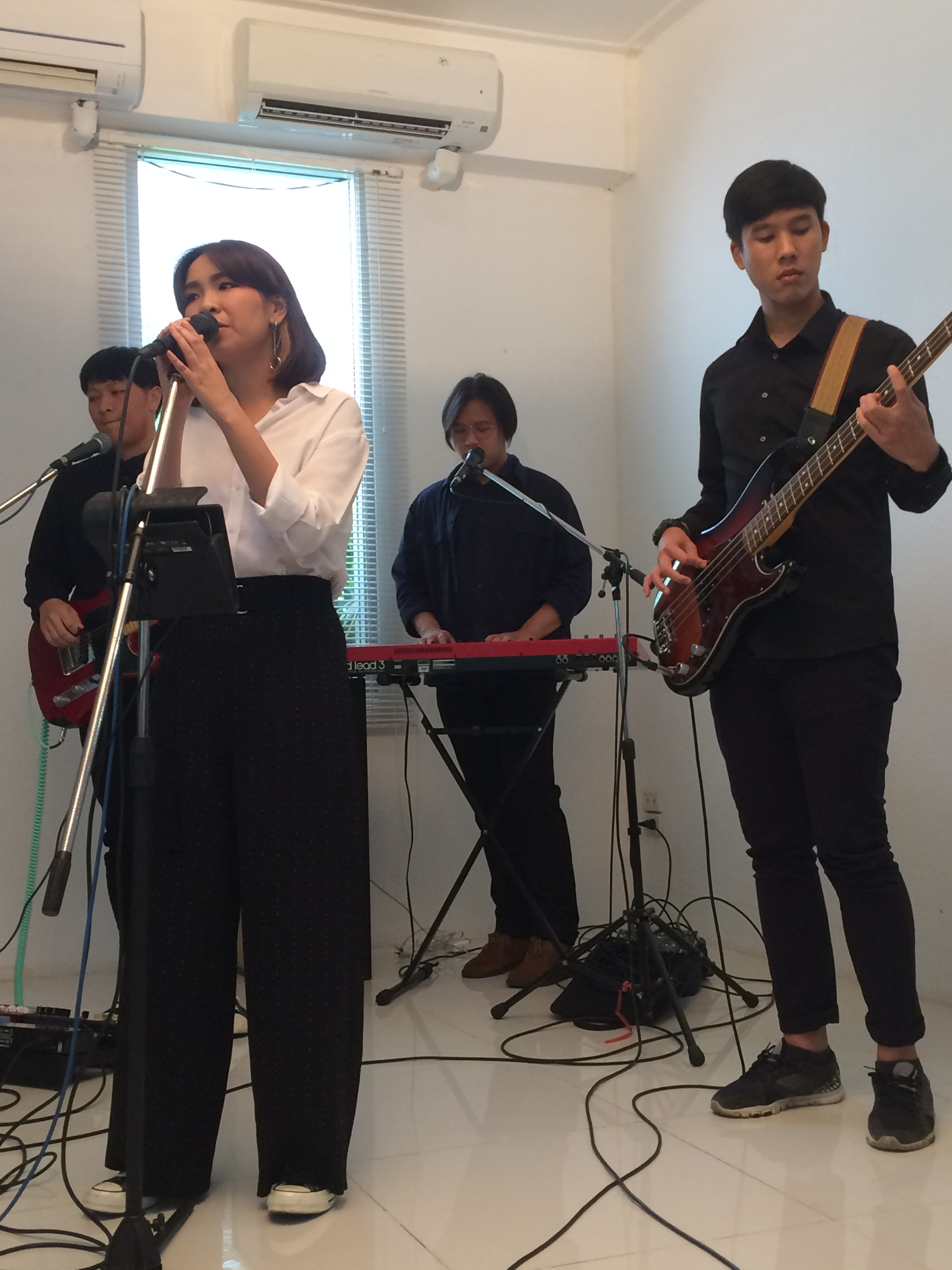 Telex Telexs at VERY.